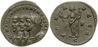 CARAUSIUS, DIOCLETIAN and MAXIMIANUS. 287-293 AD. Æ Antoninianus (4.16 gm). Camulodunum mint, struck circa 292-293 AD. CARAVSIVS ET FRATRES SVI, jugate radiate and cuirassed busts of Maximianus, Diocletian and Carausius left / PAX AVGGG, Pax standing left, holding olive-branch and vertical sceptre; S P/C. RIC V pt. 2, 1; N. Shiel, "Carausius et Fratres Sui," BNJ 48 (1978), pg. 8, 10; R.A.G. Carson, "Carausius et Fratres Sui: A Reconsideration," in SPNO, 5. EF, choice dark green patina. Rare, and one of the finest known specimens.